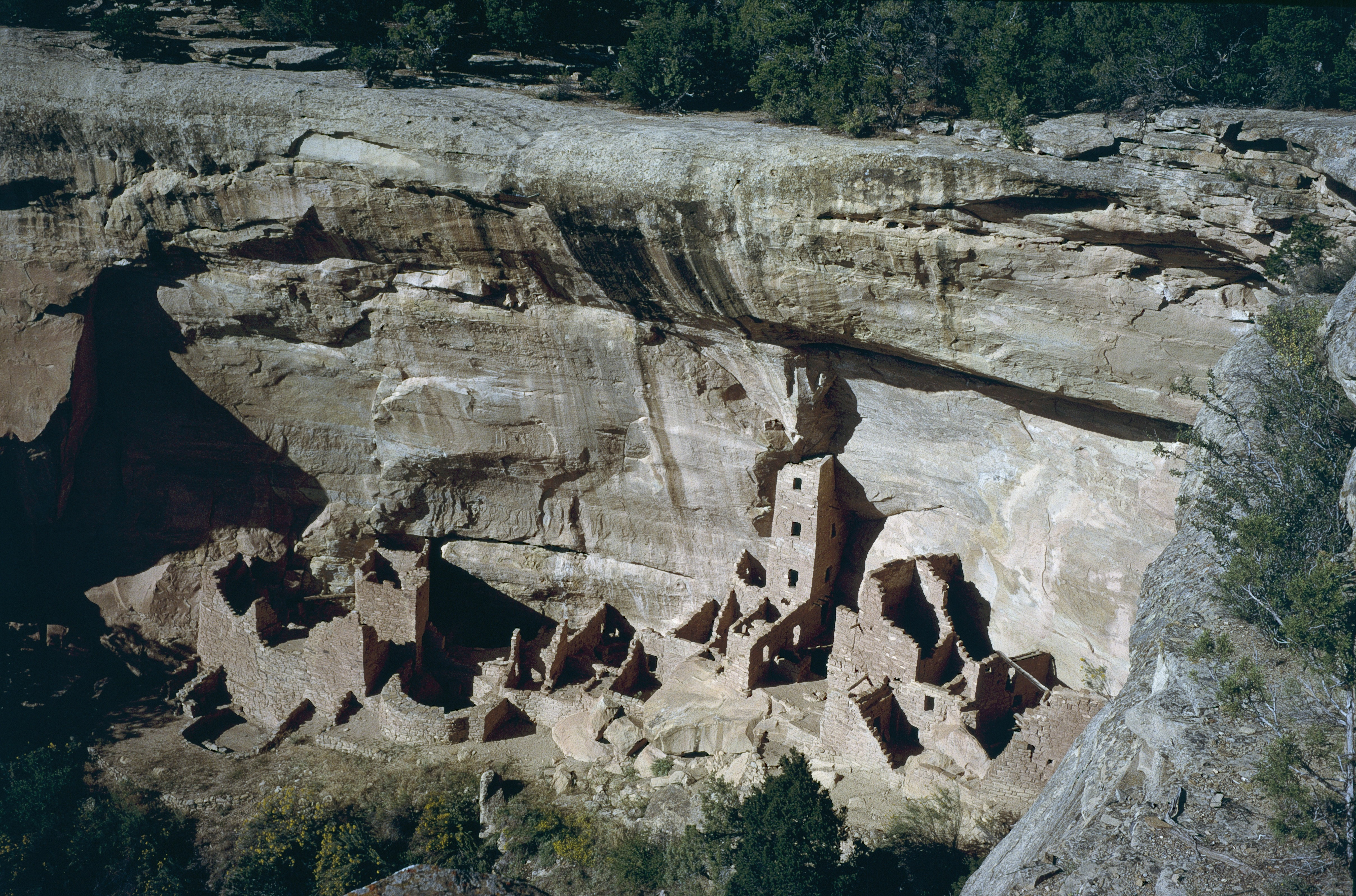 Mesa Verde, New Mexico: Square Tower House